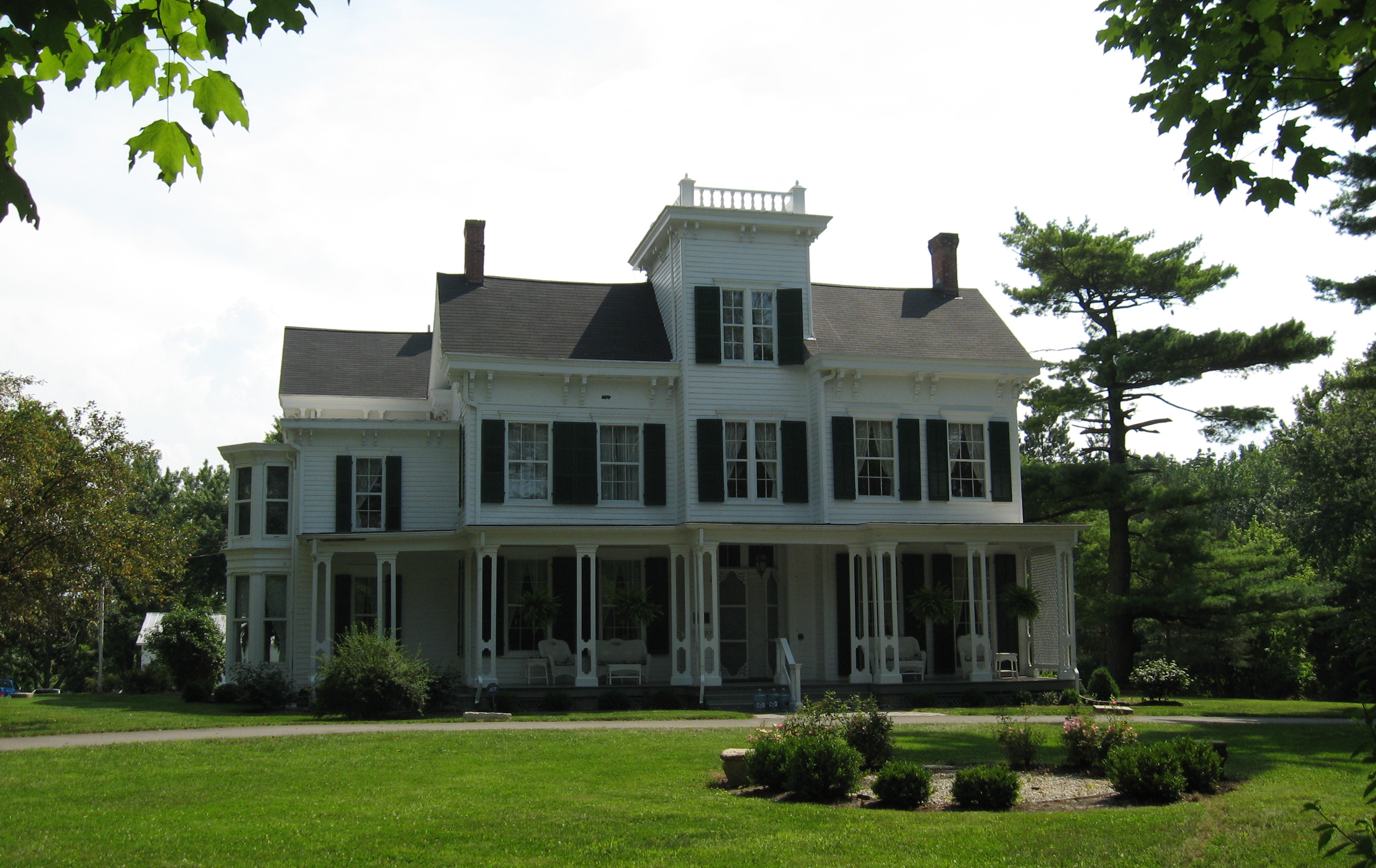 Dr. Aaron Wright House (Springboro, Ohio, USA)